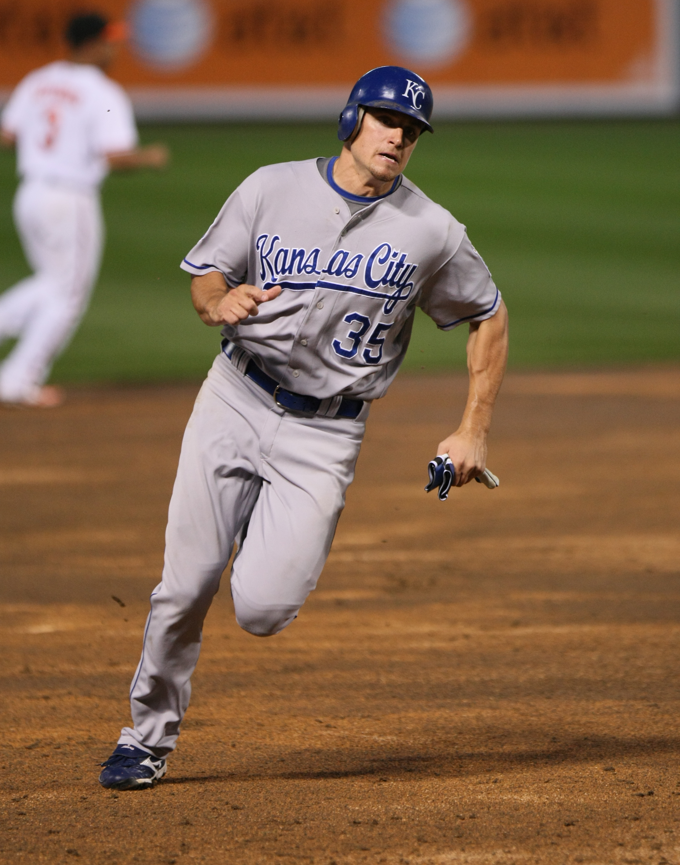 Mitch Maier rounding third base as Yuniesky Betancourt flies out to deep centre field for the third out of the second inning; Orioles shortstop César Izturis is seen in the background